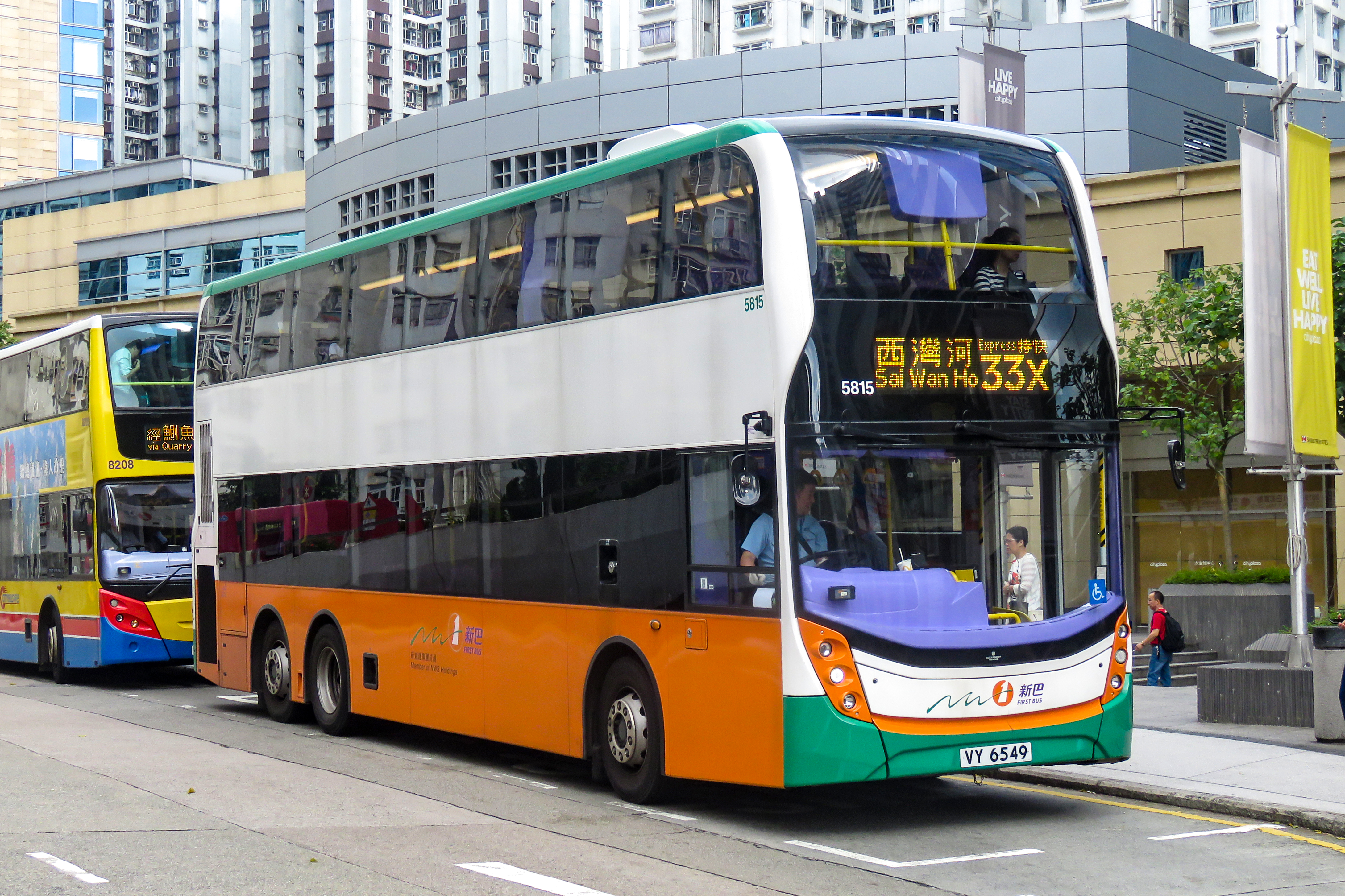 Pity that only one 33X is available every weekday...